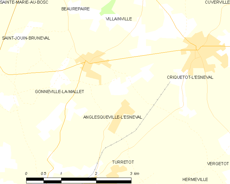 Map of French municipality Anglesqueville-l'Esneval